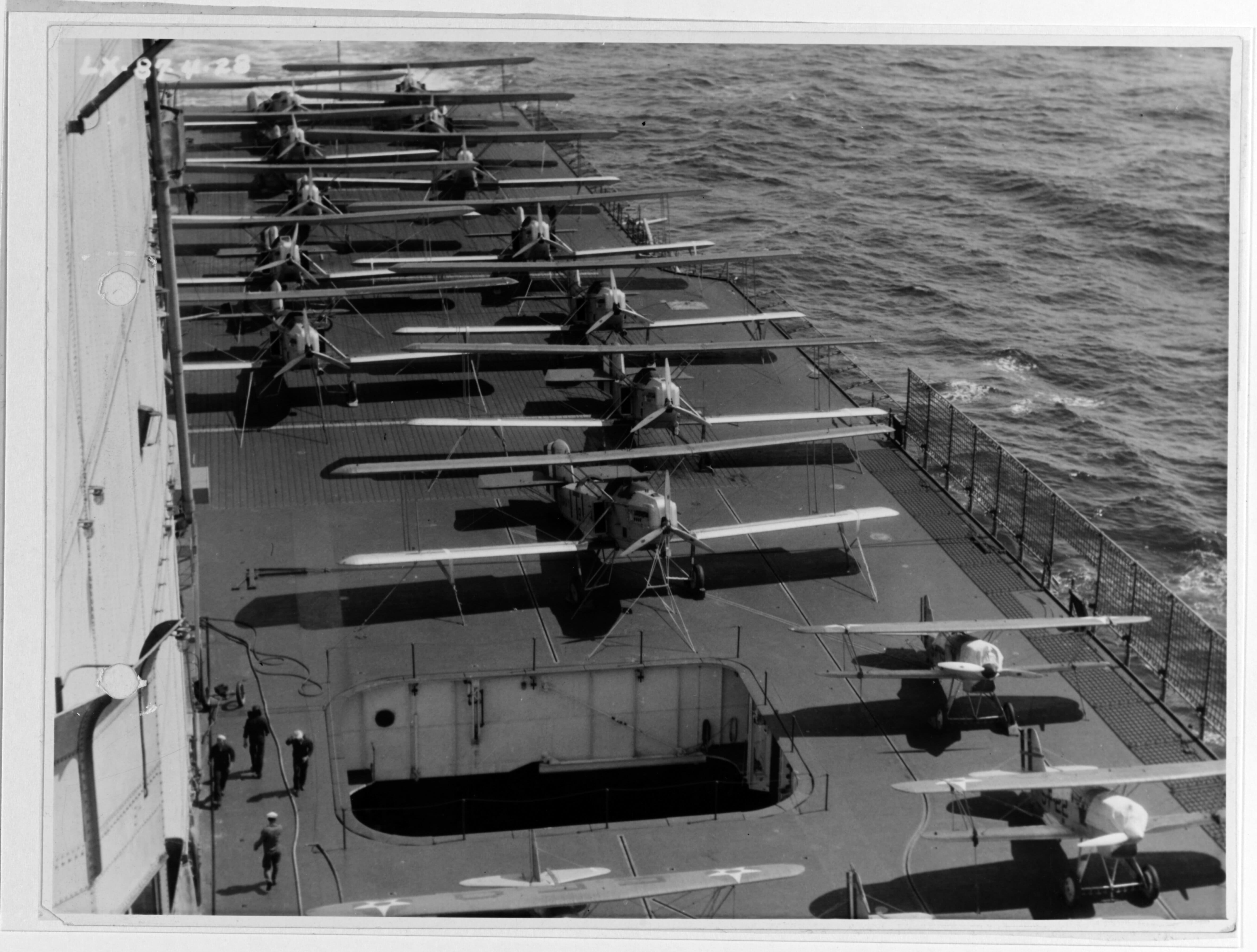 USS Lexington (CV-2): Curtiss F6C fighters (lower right) and Martin T3M torpedo planes on the carrier's flight deck, as she arrives off San Diego, California, on her maiden cruise, 4 April 1928. Note lowered elevator.